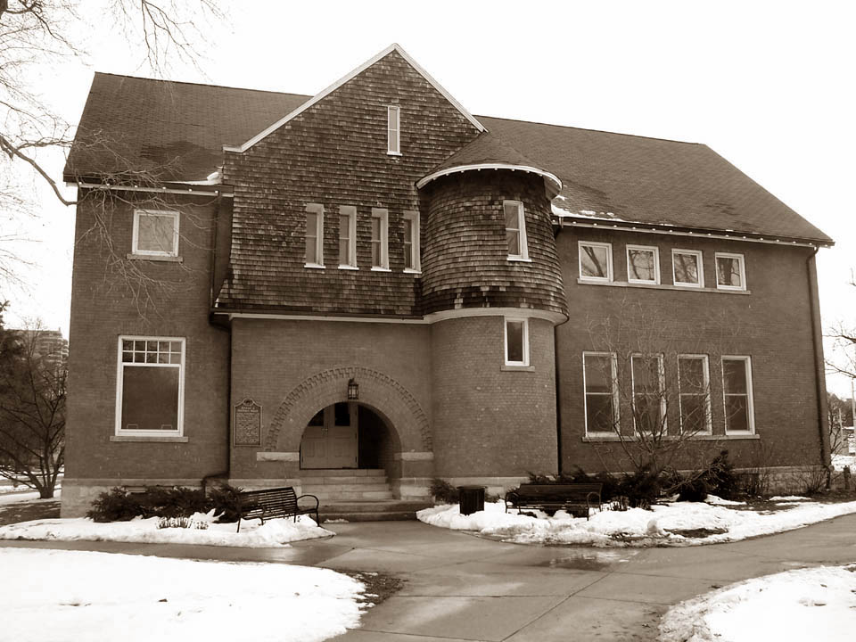 Photo self-taken and sepiatoned.